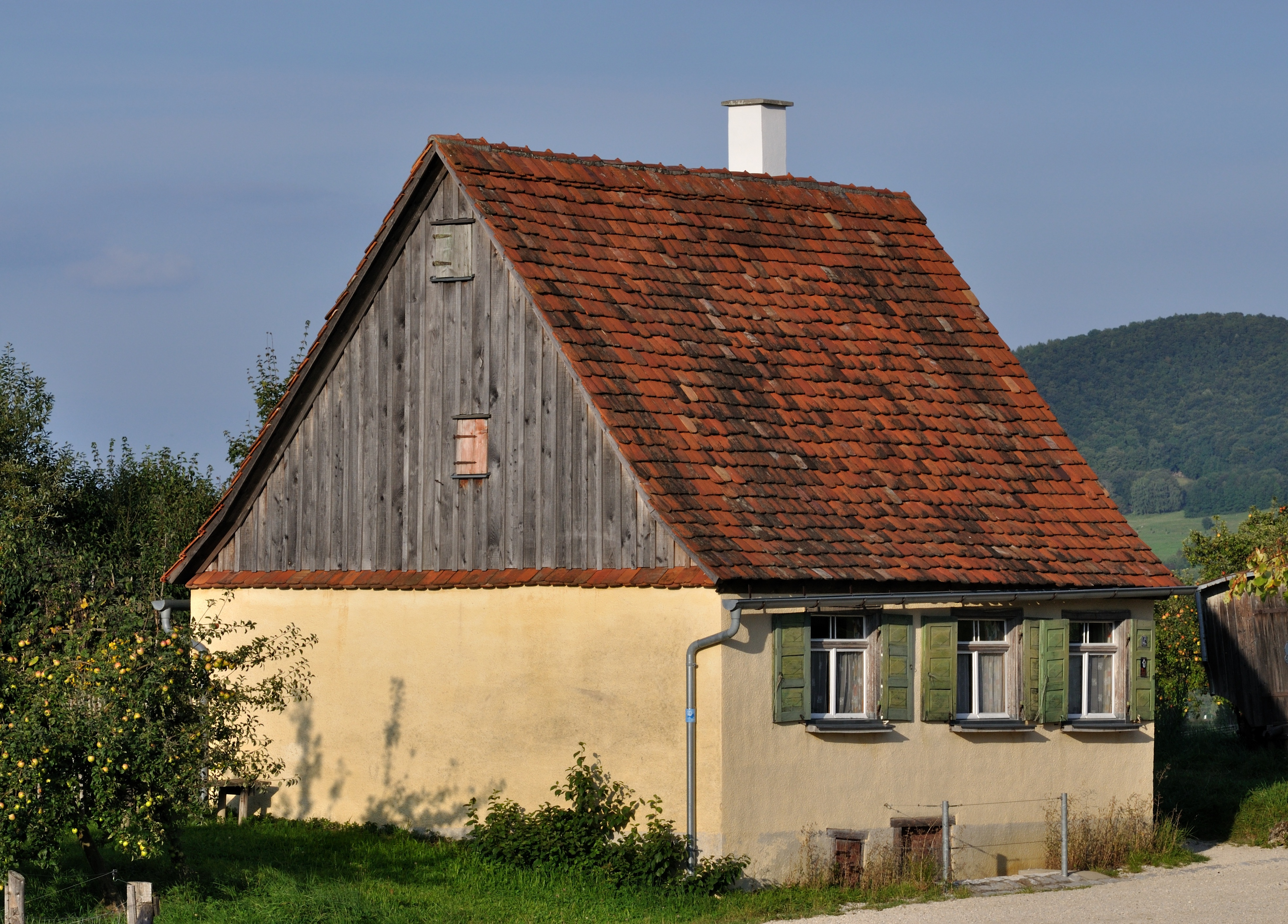 House of a day labourer in the open-air museum Beuren, Germany. The house was built in Weidenstetten, Alb-Donau-Kreis, Germany in 1734. It is constructed from field stones and uses cheap material in comparison to farmhouses. In its 270-year history it was inhabited by different families, all of them poor. The central living room offered little room and few comforts. The sleeping area was separated from the living room by a wooden screen. The house was heated by an oven and a kitchen stove. A water tap in the kitchen was the only water source, sink and washbasin were not present. The toilet was outside. With the exception of a connection to the electricity network, larger modernisations were not carried out. The house was dismantled in Weidenstetten in 1993 and rebuilt in the open-air museum Beuren in 1997/98.